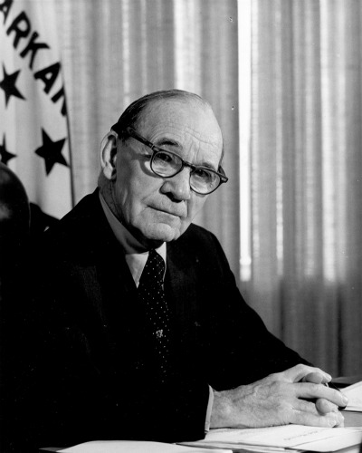 United States Senator John Little McClellan (D–AR)